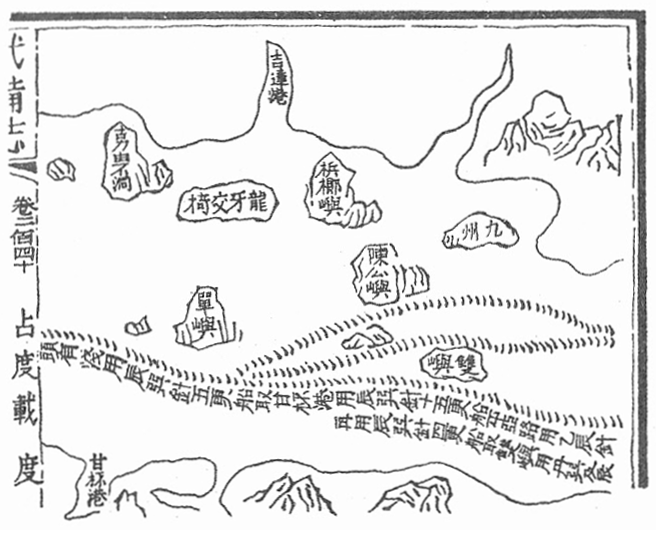 Mao Kun map showing the island of Langkawi (龍牙交椅), Kedah river estuary (吉達港), Penang island (梹榔嶼) and Pulau Sembilan (九州)